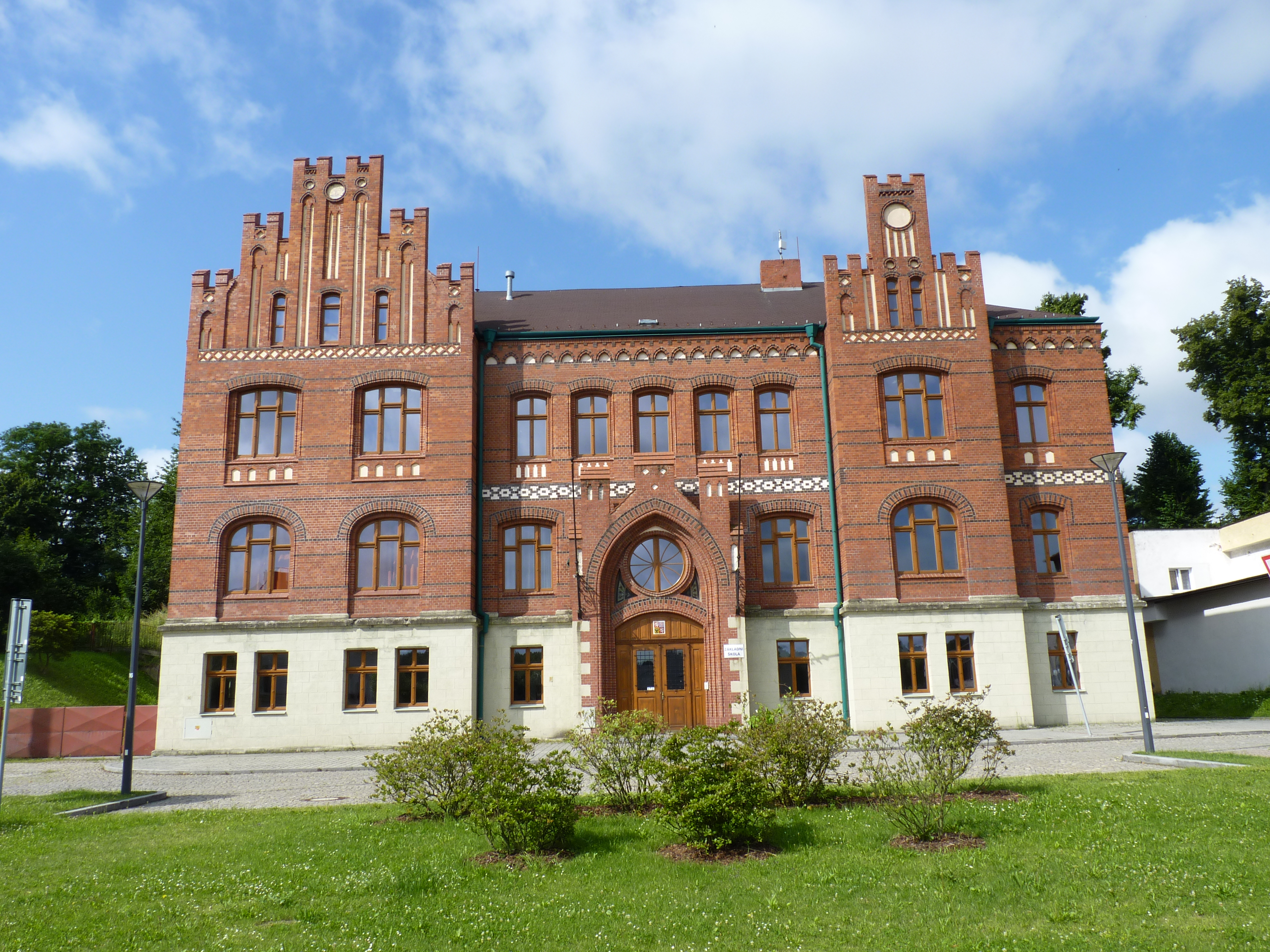 Petřkovice, Ostrava. Ostrava-city District, Moravian-Silesian Region, Czech Republic